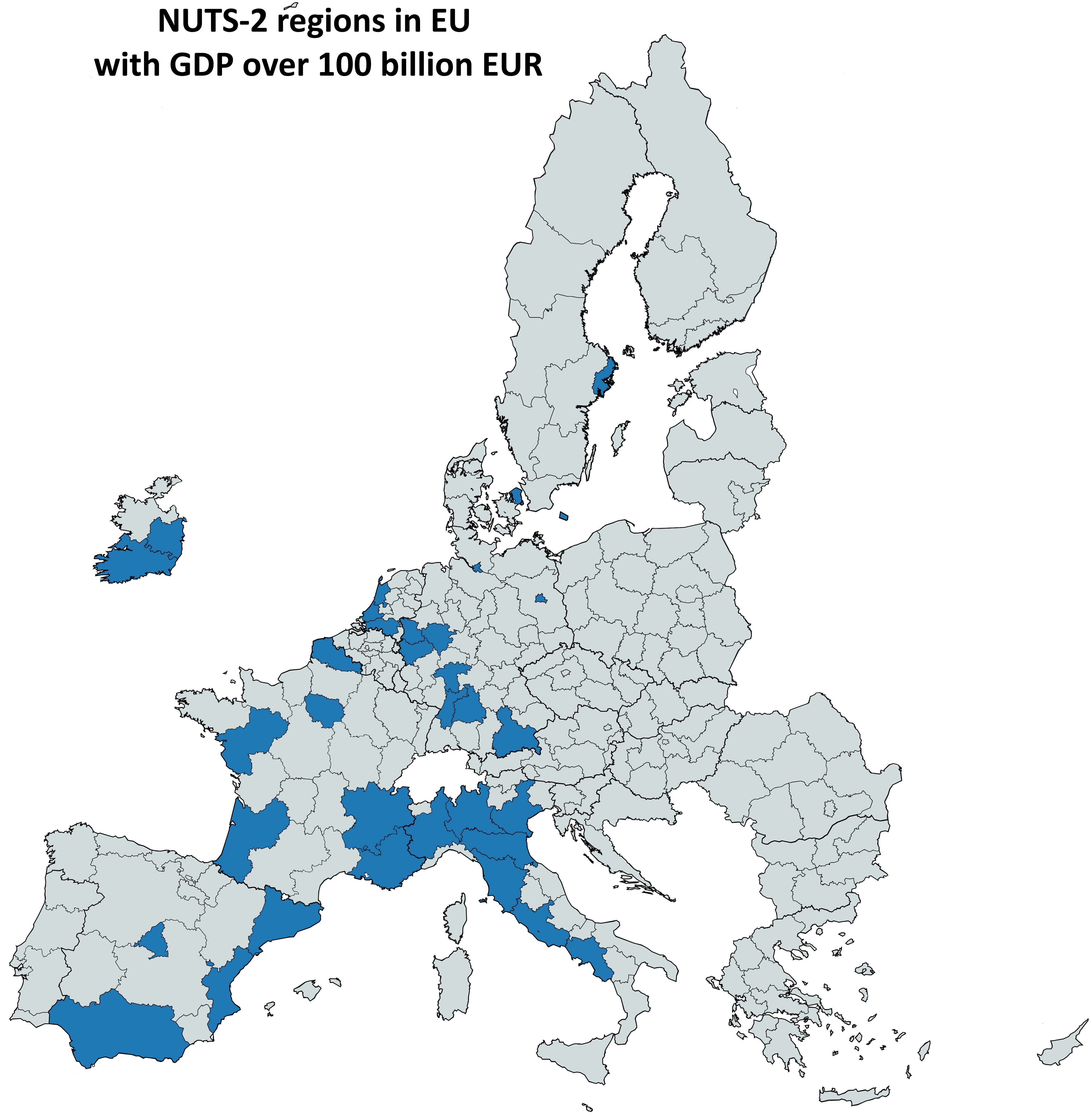 NUTS-2 regions in EU with GDP over €100 billion